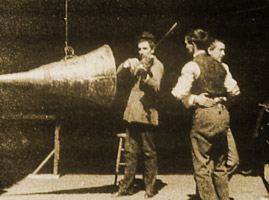 Violinist playing into acoustic phonograph recording horn as two men dance.